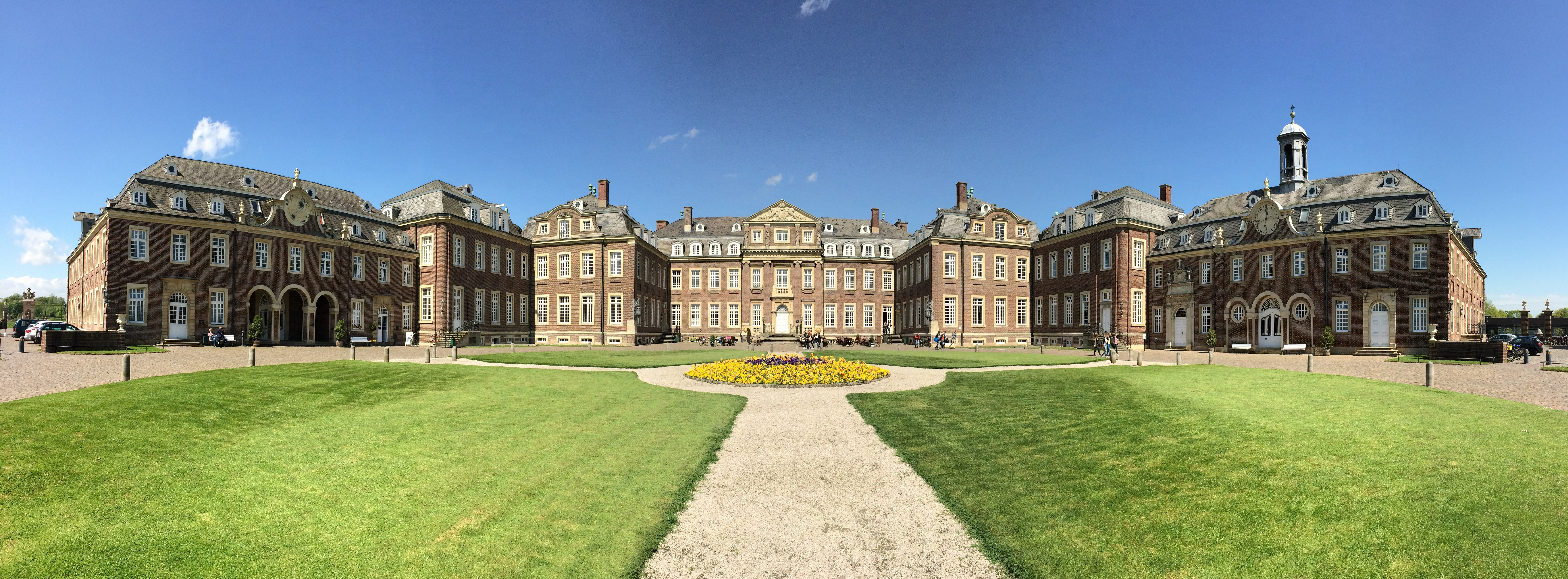 Nordkirchen castle in Nordkirchen (Coesfeld district, North Rhine Westphalia, Germany). Panoramic view from the south. It houses the University of Applied Sciences of Finances of North Rhine Westphalia, a state-run college specializing in the training of future tax inspectors.